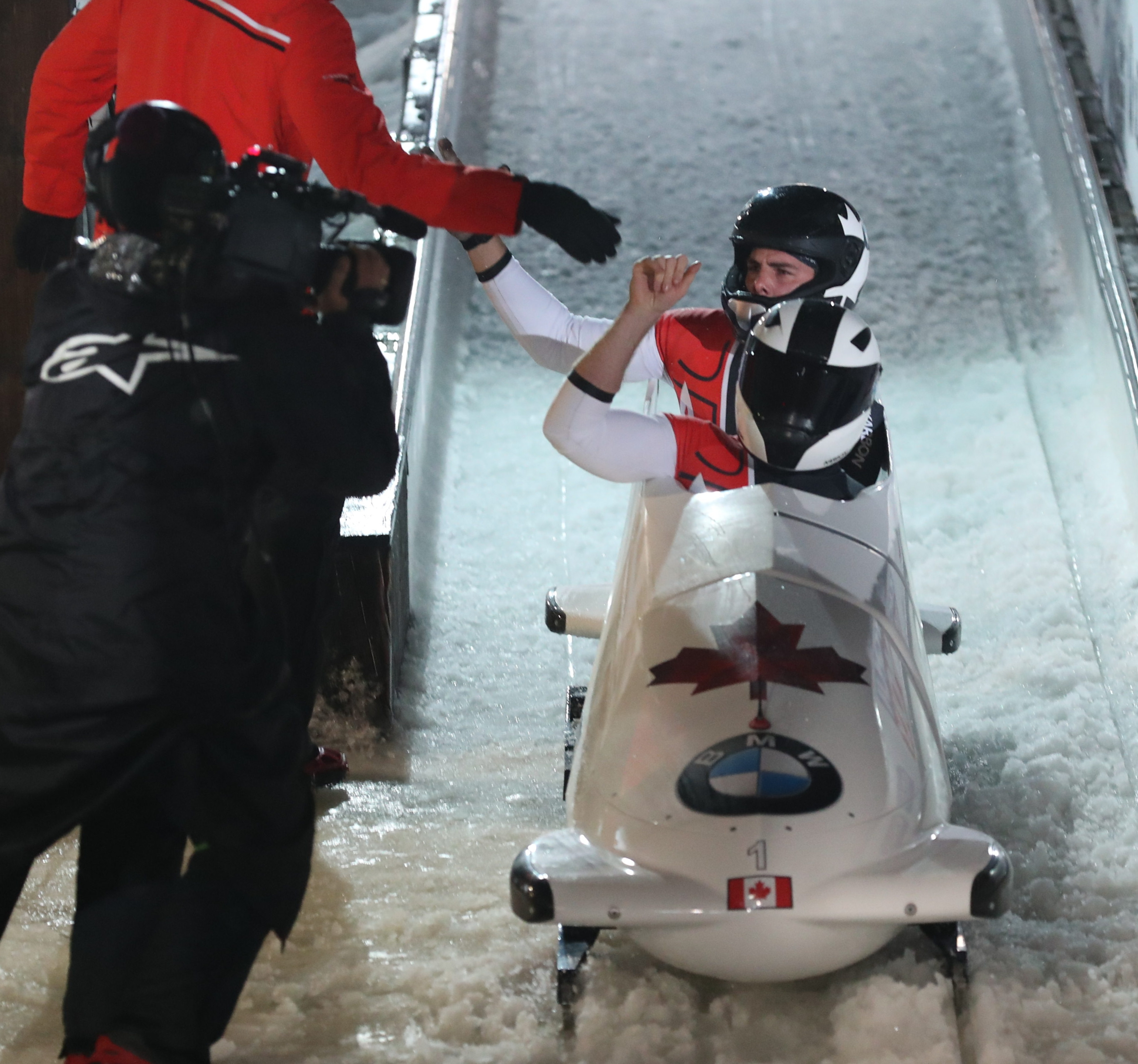 2-man Bobsleigh Men's World Cup race at the 2018/19 Bobsleigh World Cup in Altenberg